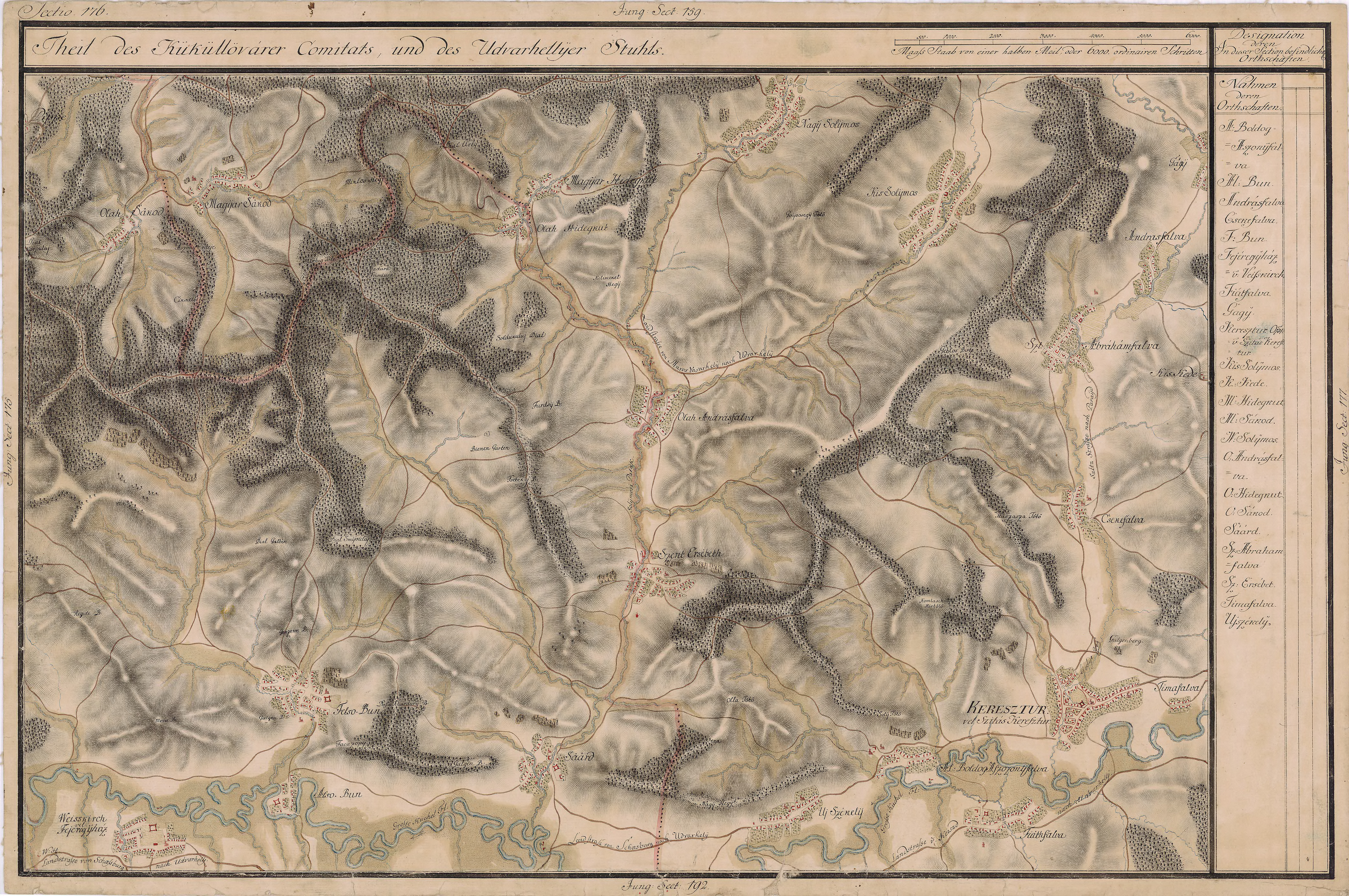 Grand Duchy of Transylvania, 1769-1773. Josephinische Landaufnahme pg.176